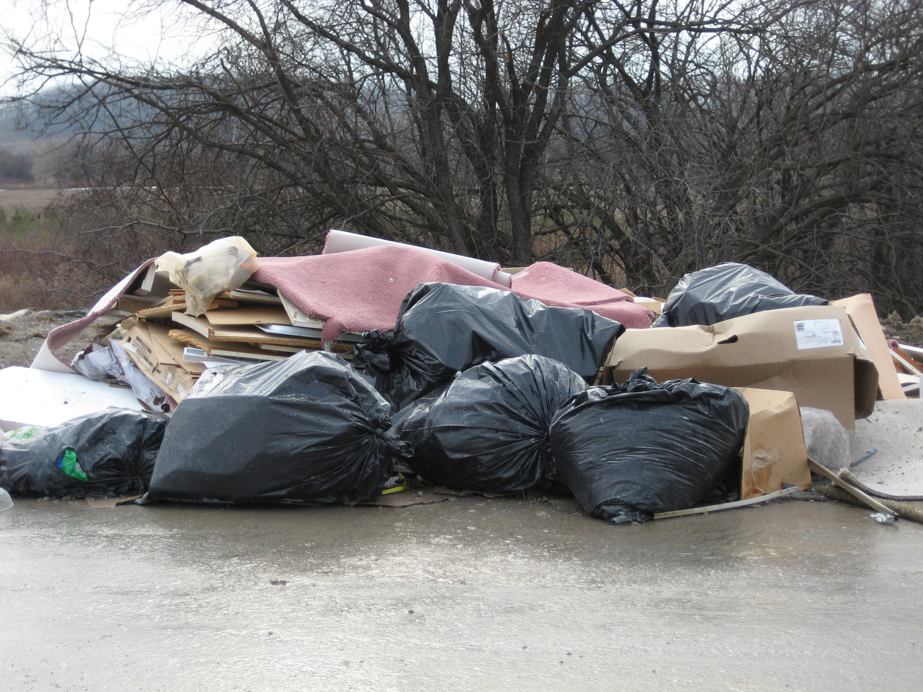 A pile of residential and commercial garbage at the side of the road in a subdivision under development. The subdivision is North of Toronto in the community of Maple between Major Mackenzie Dr, Rutherford Dr, Dufferin St and Keele St. Lands which are in the process of development or soon to be developed are often chosen as a dump site for otherwise hard to dispose of waste which requires special treatment. Road access coupled with limited surveillance often provides the perfect opportunity for this form of illegal dumping which often goes unpunished and leaves others such as the community or developer to properly dispose of the waste.